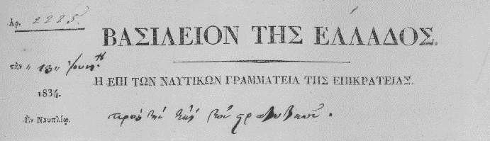 Cropped from letter of the Secretariat of the State on Naval Issues (Ministry of the Seas), Greece, 1834 File:Ypourgeio epi ton Naftikon grammateia tiw epikrateias 1834.jpg